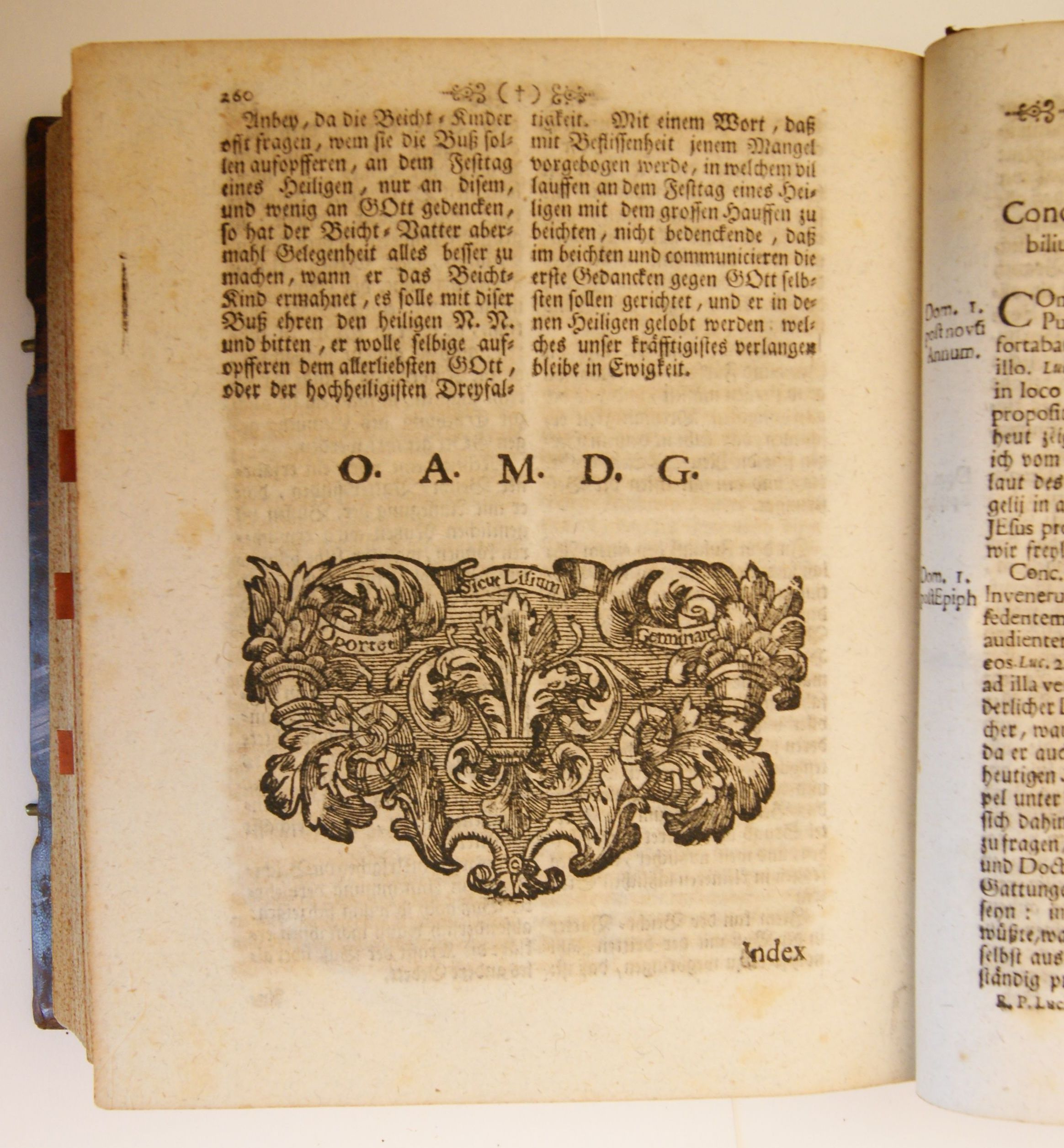 Detail of a Vignette on the last page, volume 4, of the Book of Lucianus Montifontanus "Geistliches Kinder-Spill, das ist, Drey hundert sechs und zwantzig neue Predigen uber den kleinen Catèchismum ...", 4th volume, 1747, edition photographed in the Vorarlberg State Library, Sig. VA Lucia 1747/1.